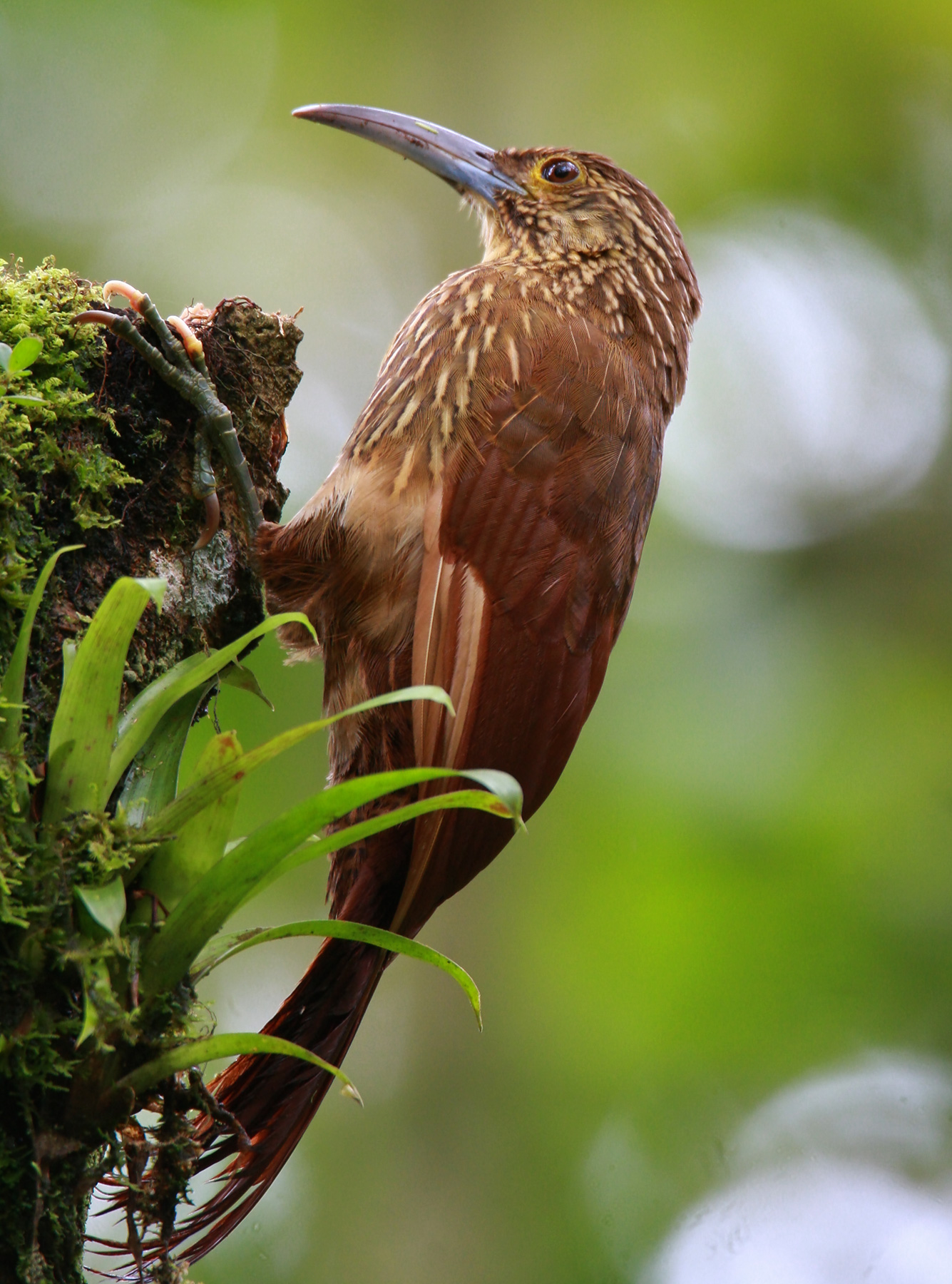 A Strong-billed Woodcreeper, Pajaro Jumbo Private Reserve near Mindo, Ecuador